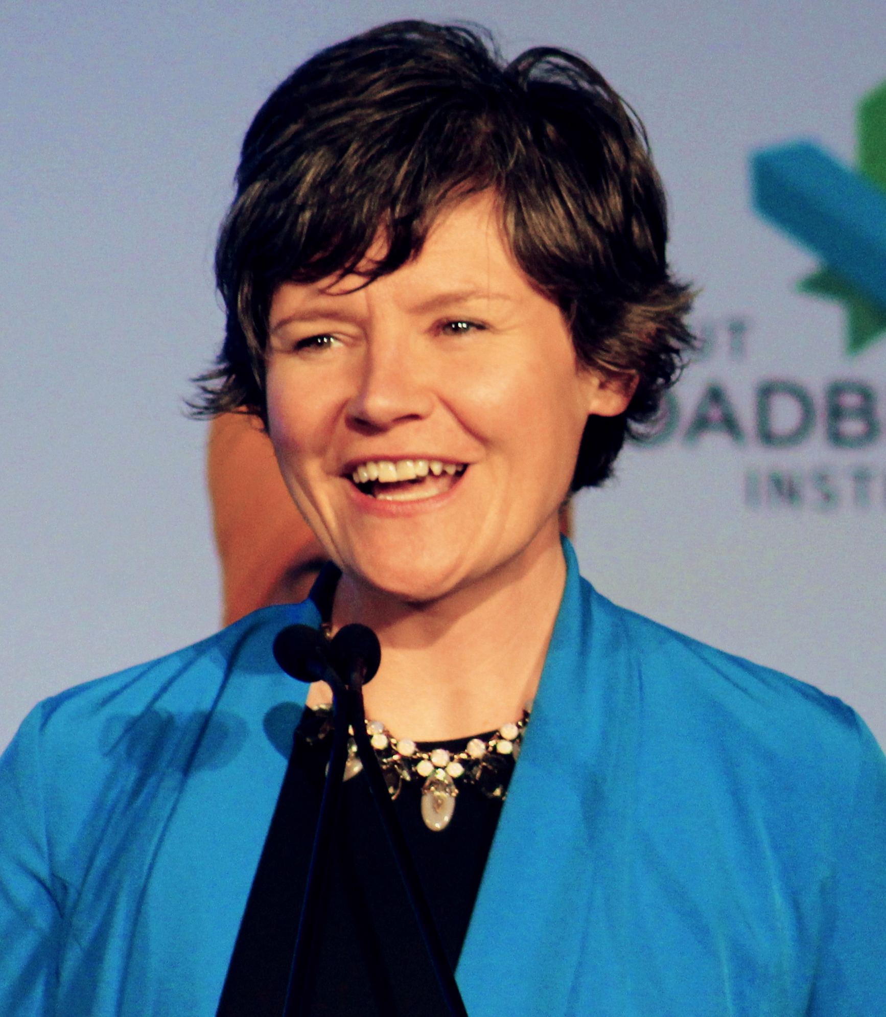 Megan Leslie presenting at the Broadbent Institute's Progress Summit in April of 2016.